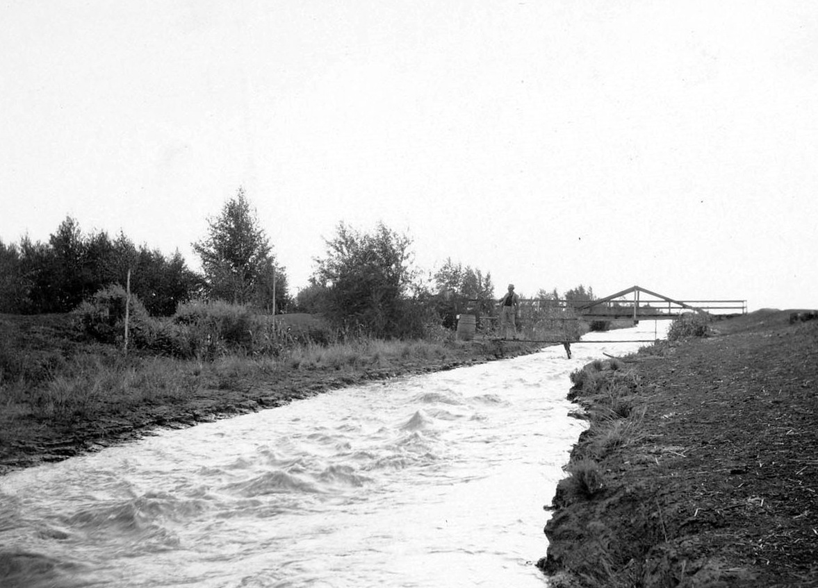 View on Main Canal--Note High Velocity: An unidentified man standing next to the Main Canal of the Imperial Canal system.